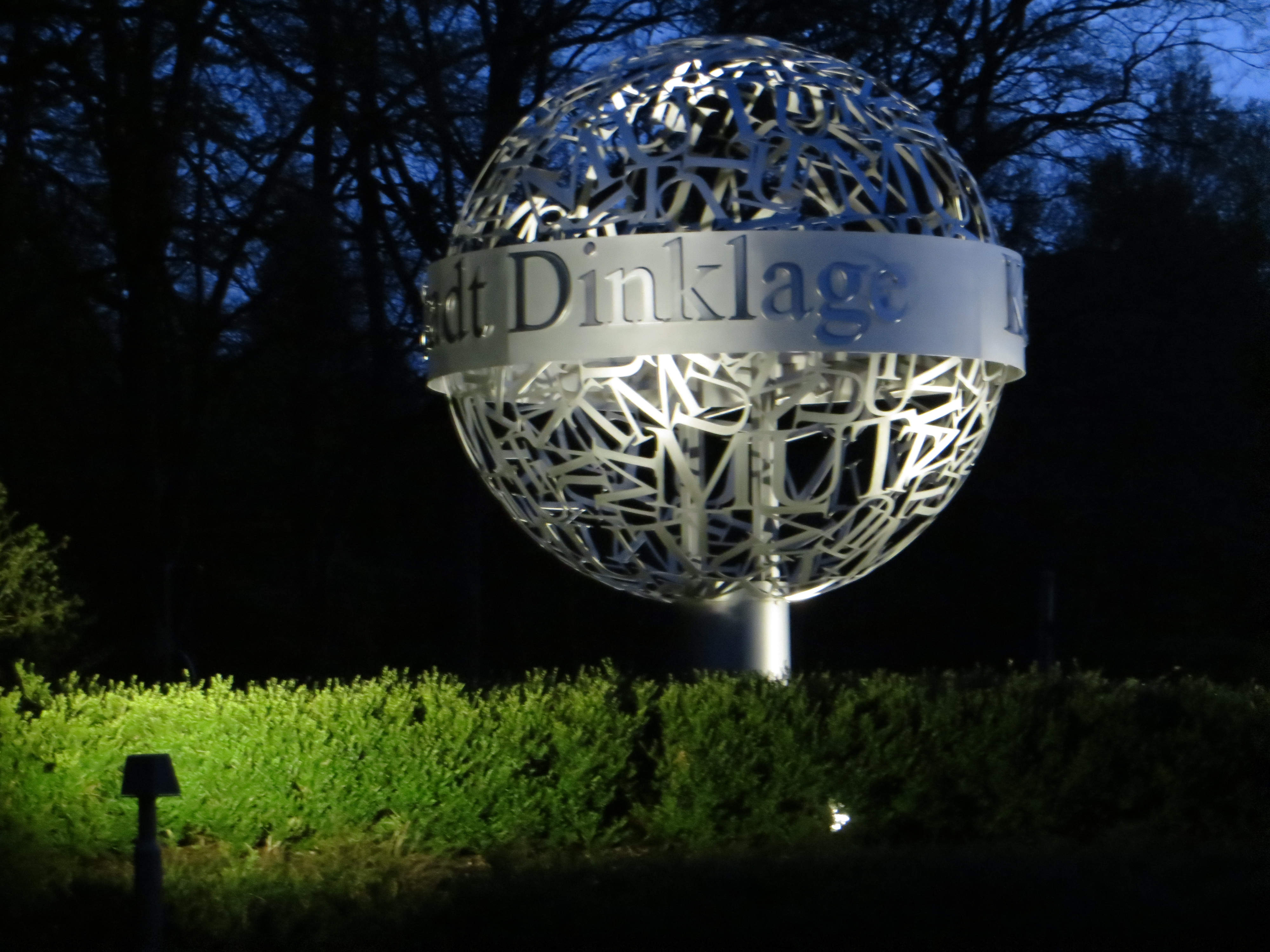 "Mutkugel" / Courage ball on the roundabout at the edge of Dinklage.